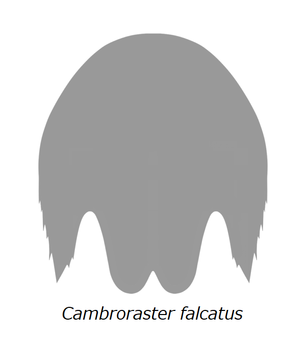 H-element (anterior sclerite / dorsal carapace) of the radiodont species Cambroraster falcatus.